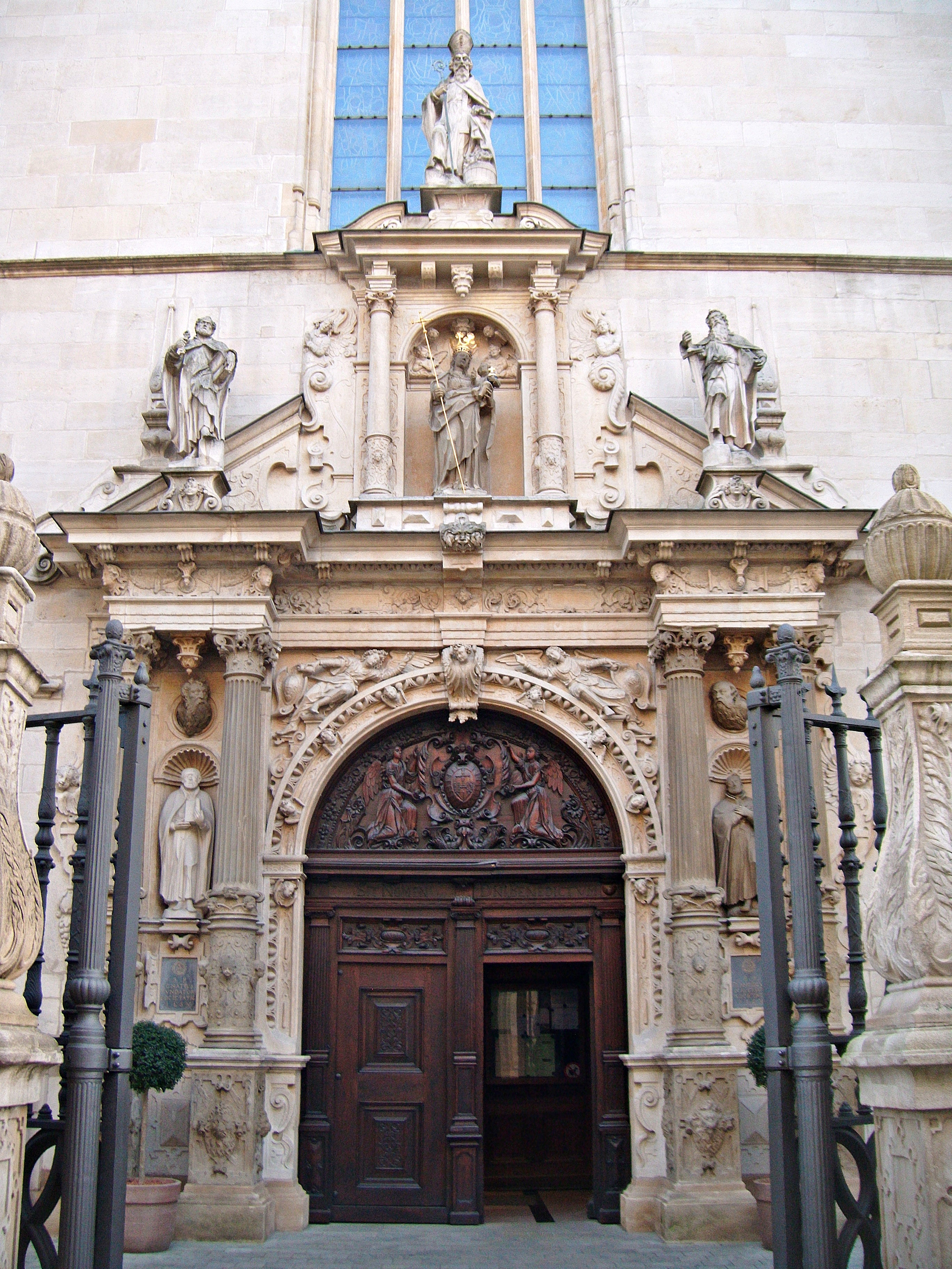 Kathedrale Notre Dame Luxemburg (Stadt), historisches Hauptportal, Nordseite, (1621)